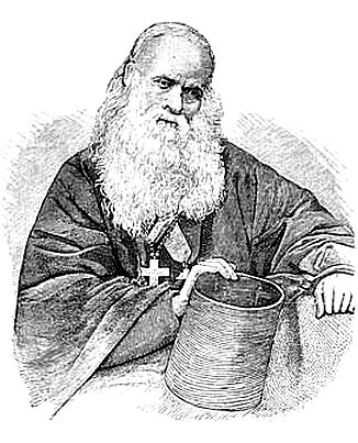 Rodion Timofeyevich Putyatin